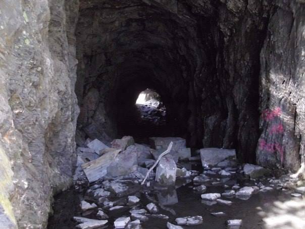 Hand-cut tunnel for a railroad that was never built in Keystone Canyon, outside of Valdez, Alaska.